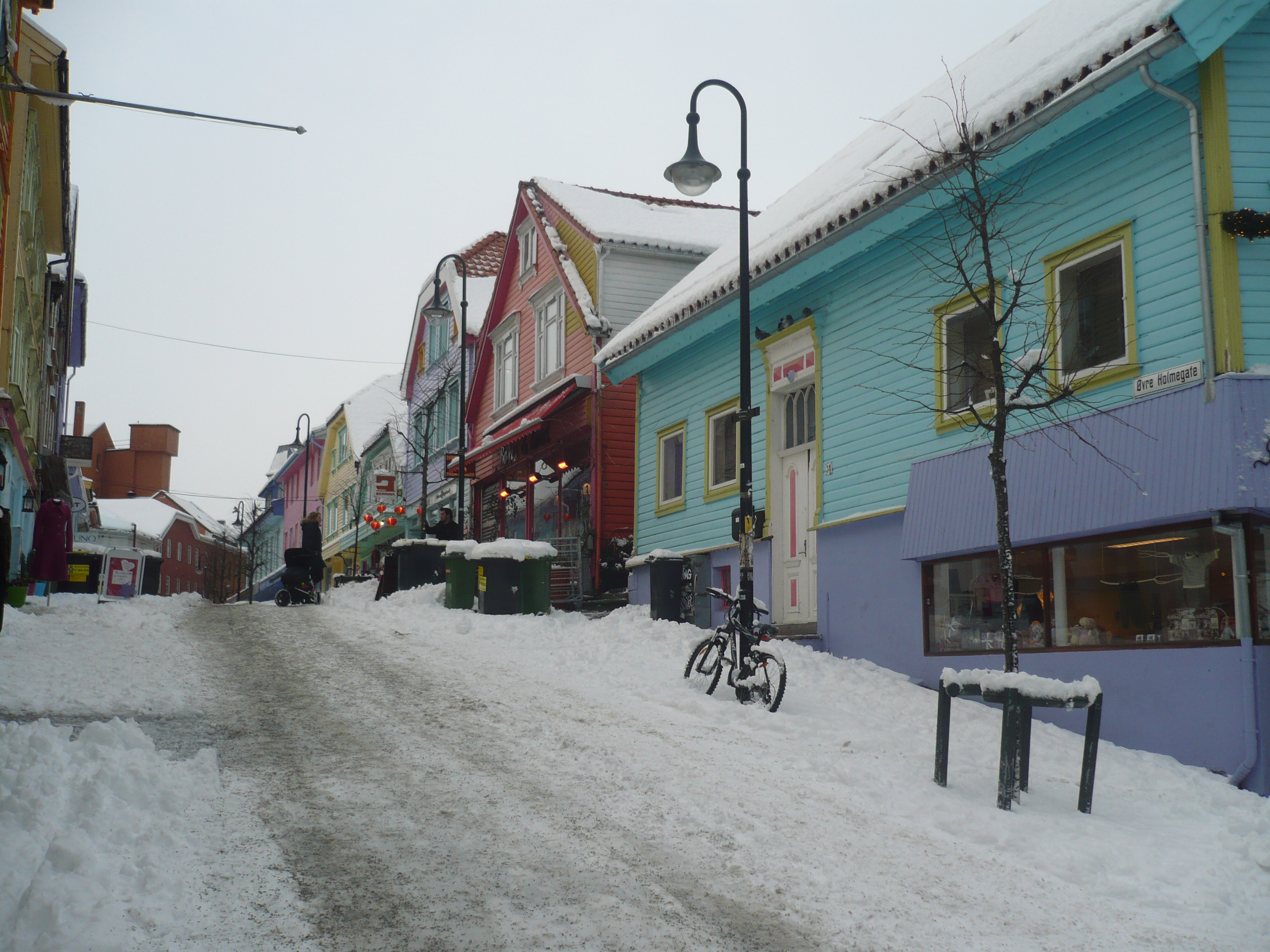 Øvre Holmegate in Stavanger a winter day